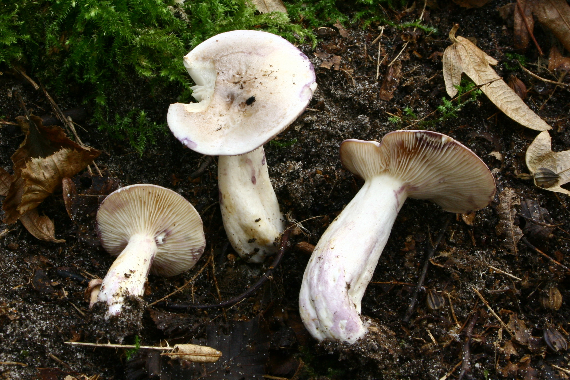 Lactarius uvidus in a wood near Senlis, France.